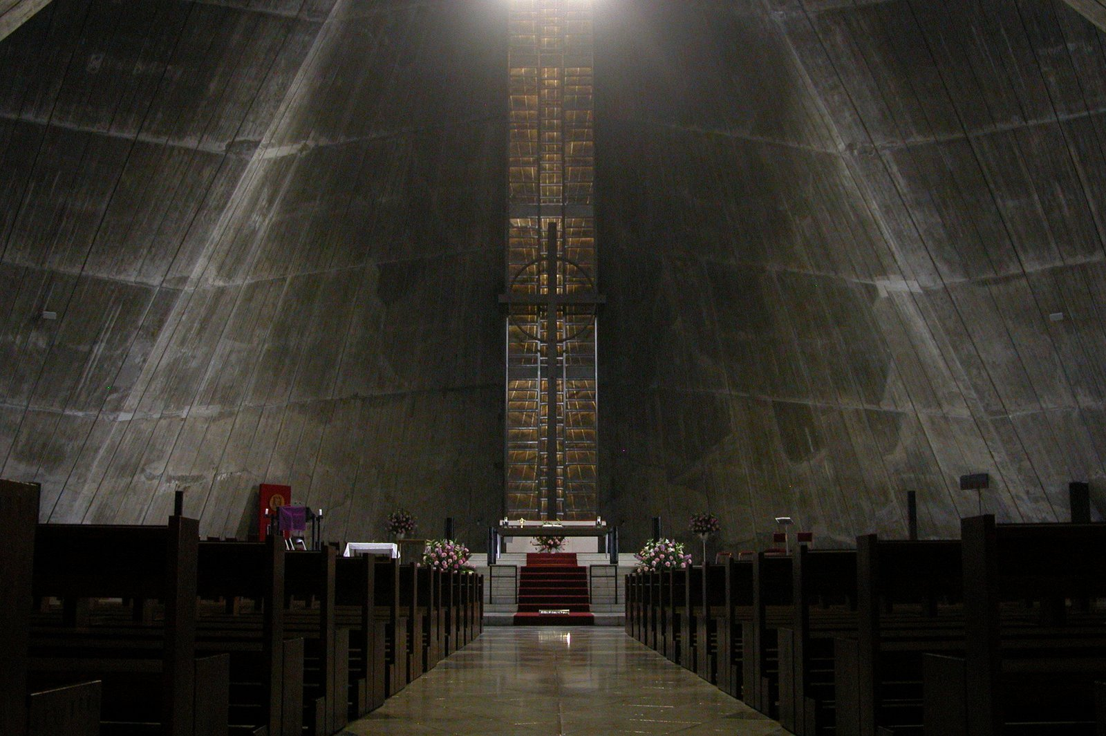 Interior of St. Mary's Cathedral - Tokyo